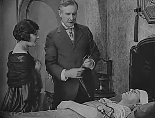 L. to R. : Gloria Swanson, Clarence Geldart & Thomas Meighan (sleeping) in Why Change Your Wife - cropped screenshot